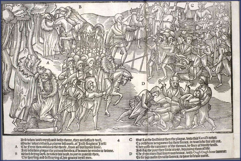 A plate originally from The Image of Irelande, by John Derrick, published in 1581. This image was taken from this Edinburgh University Library website - [1], with the description - "The Irish chieftain receives the priest's blessing before departing to fight the English, who are shown in full armour".